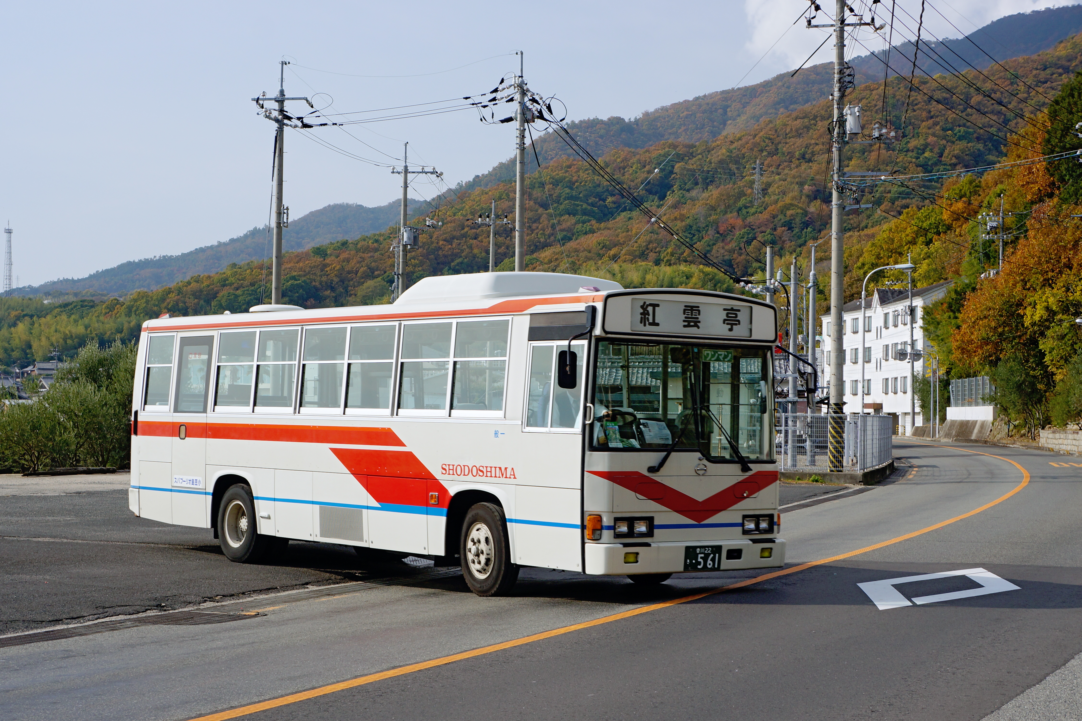 Kusakabe Port of Shodo Island in Shodoshima, Kagawa prefecture, Japan